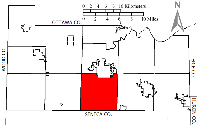 Made by US Census and modified by User:Frank12